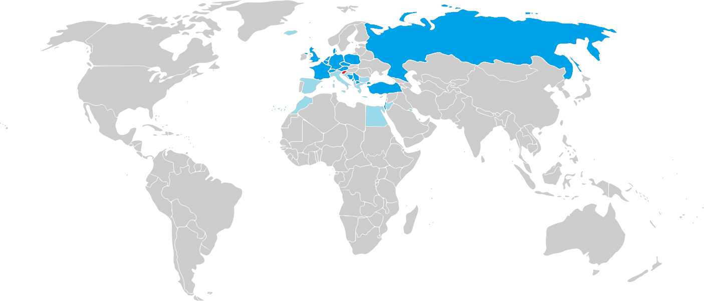 Destinations of Adria AirwaysLatviešu: Adria Airways galamērķi